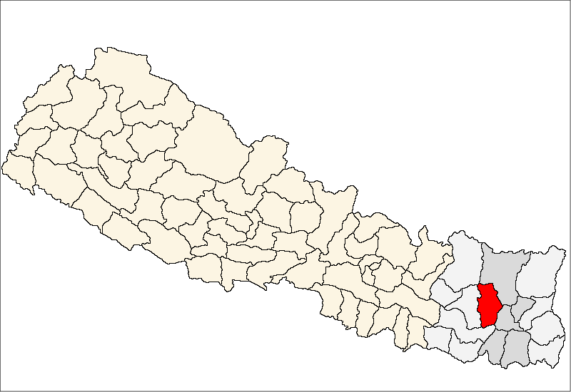 FrenchCarte de localisation dudistrict de Bhojpur(wp-FR),au Népal (wp-FR).EnglishLocation map ofBhojpur District(wp-EN),in Nepal (wp-EN).